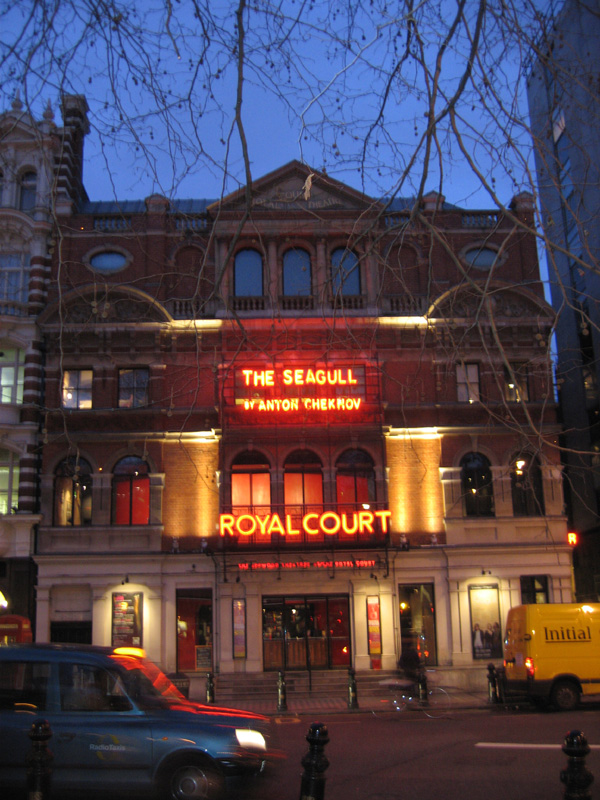 Photo of the Royal Court Theatre in Chelsea in London, taken by me, Burnley at dusk on 2007-01-22.